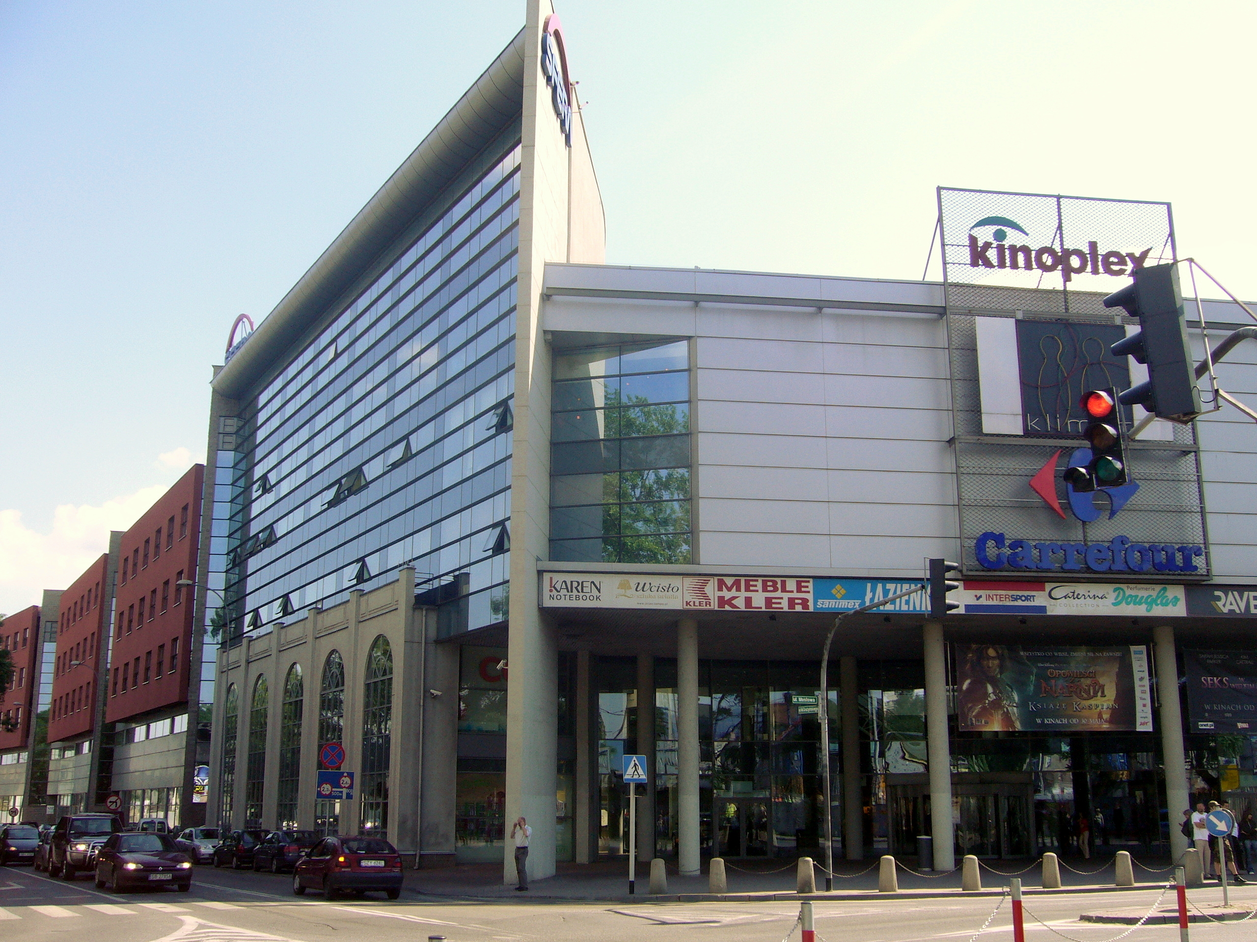 Gallery Sfera - mall in Bielsko-Biała